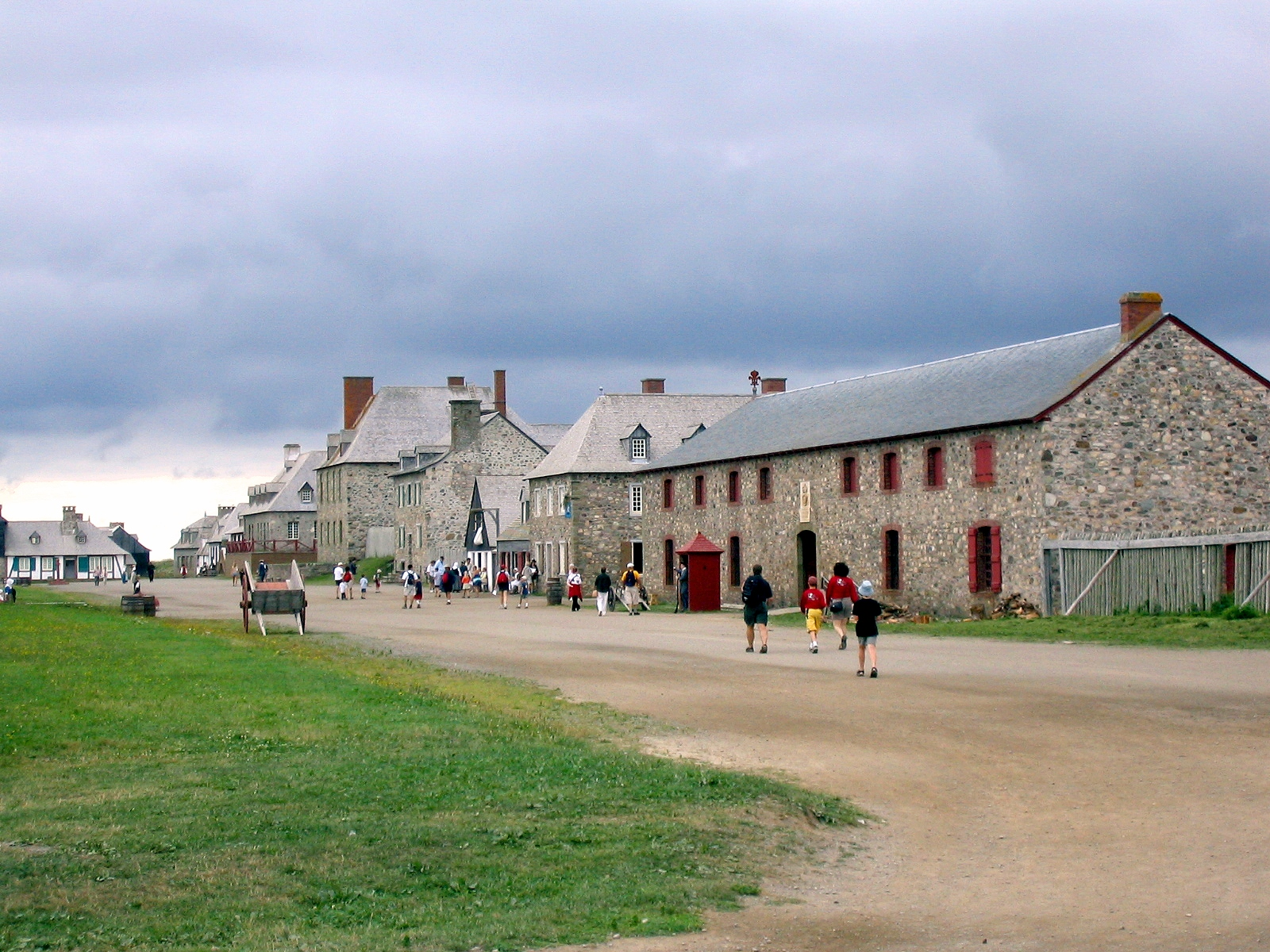 Fortress of Louisbourg, Cape Breton Island, Nova Scotia